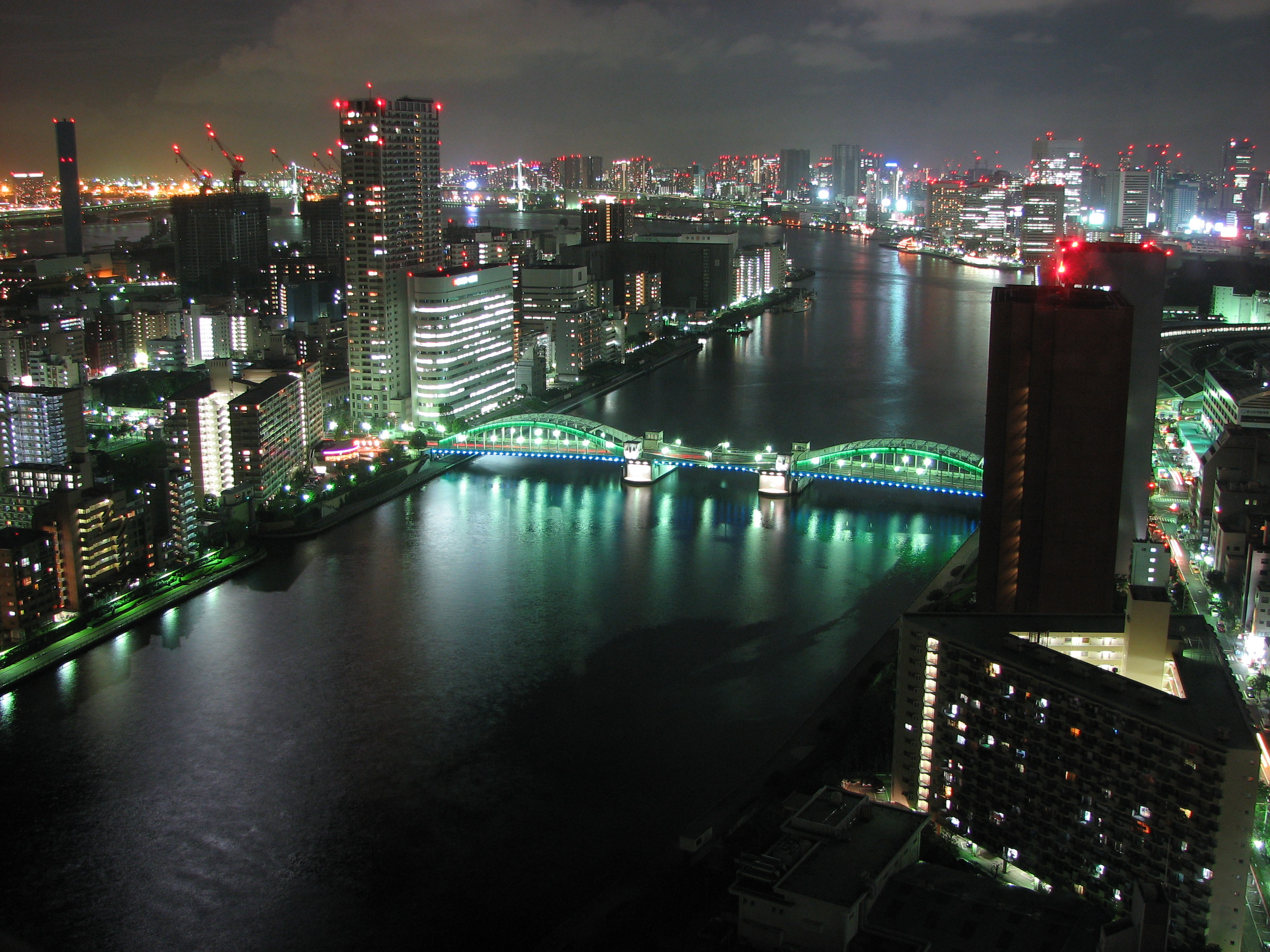 Kachidokibashi Bridge and Sumida River at Night, taken from Hotel New Hankyu, in St. Luke's Garden, Tokyo.